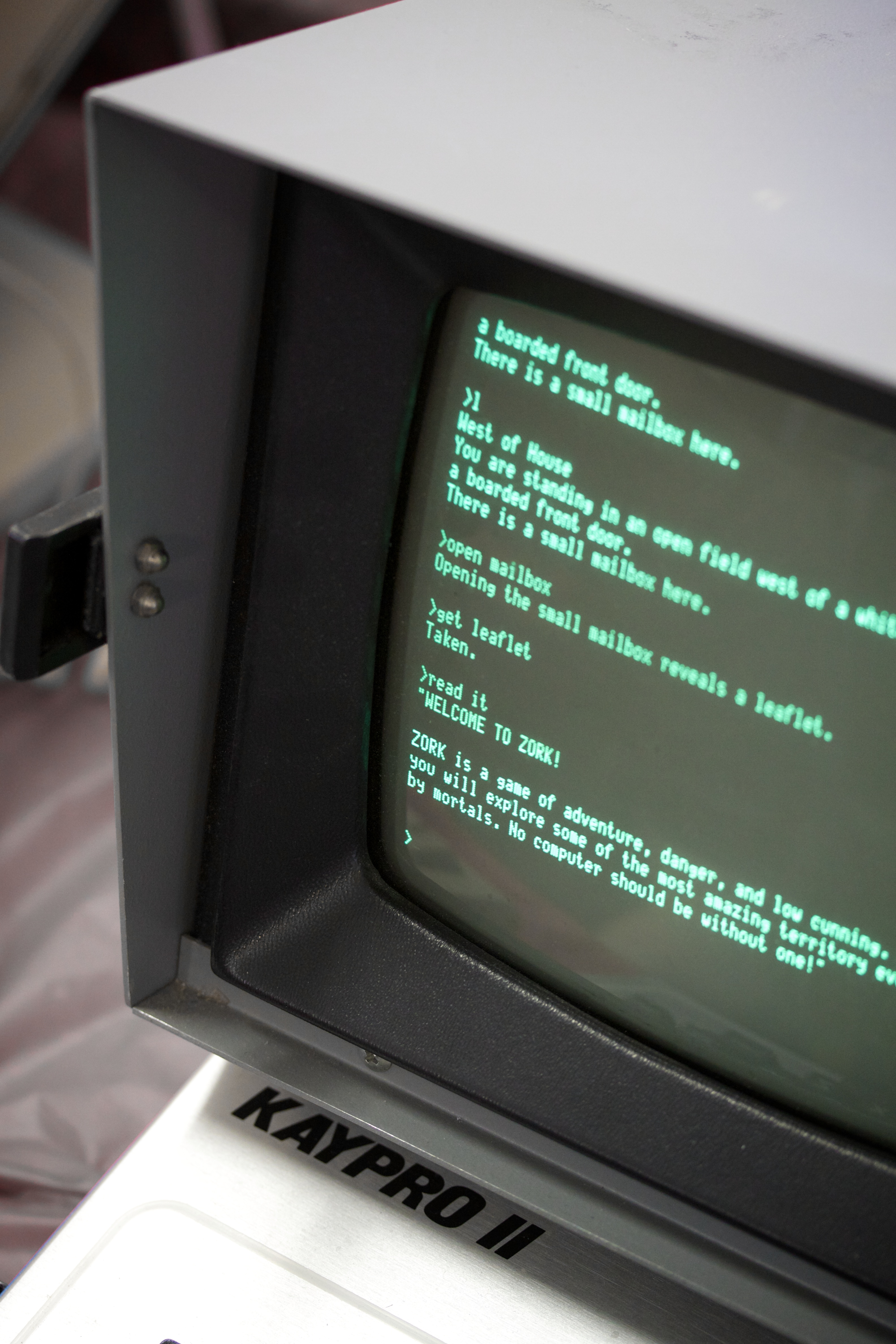 Photo taken of a computer screen at the start of 1980 text-adventure Zork.